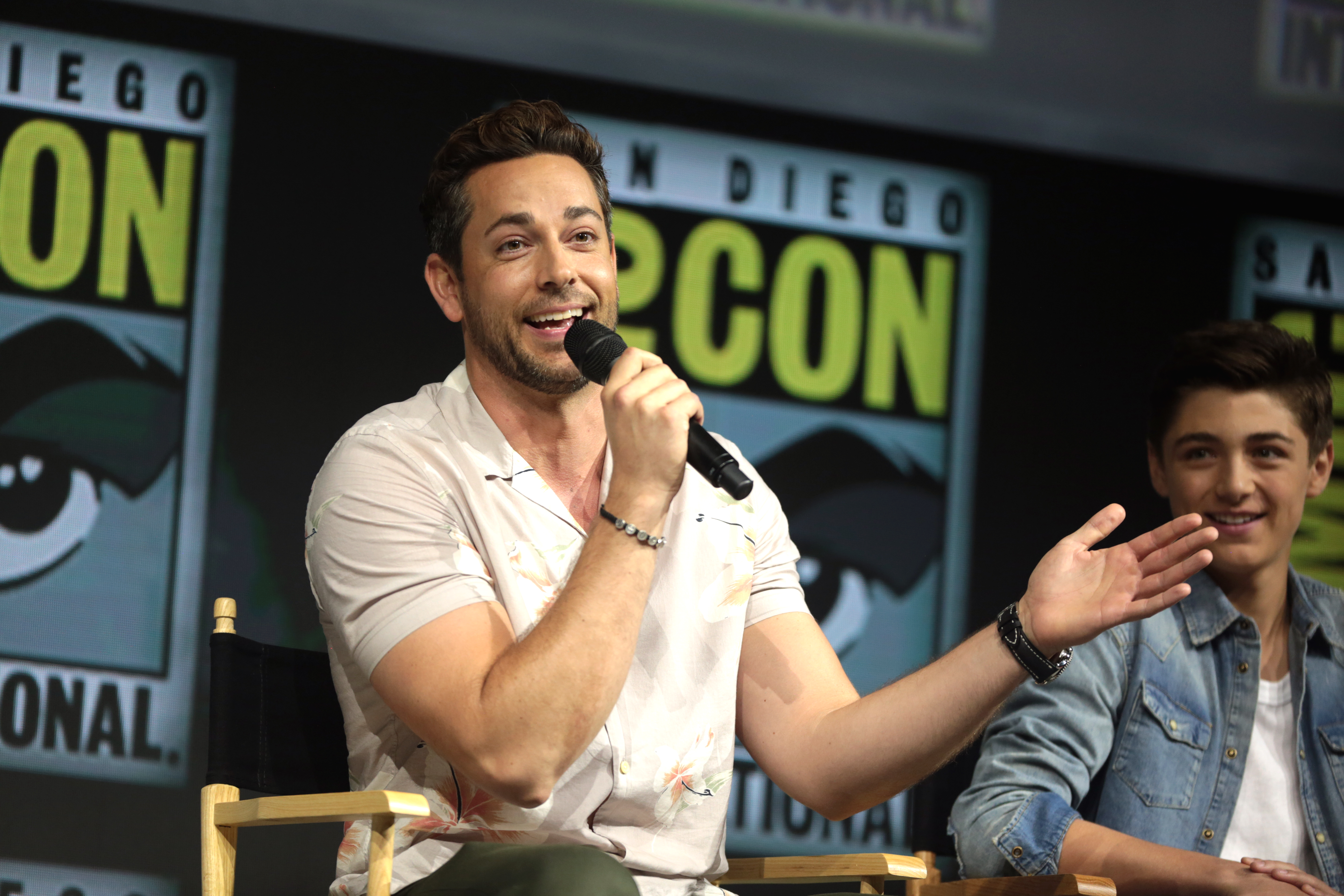 Zachary Levi speaking at the 2018 San Diego Comic Con International, for "Shazam!", at the San Diego Convention Center in San Diego, California.